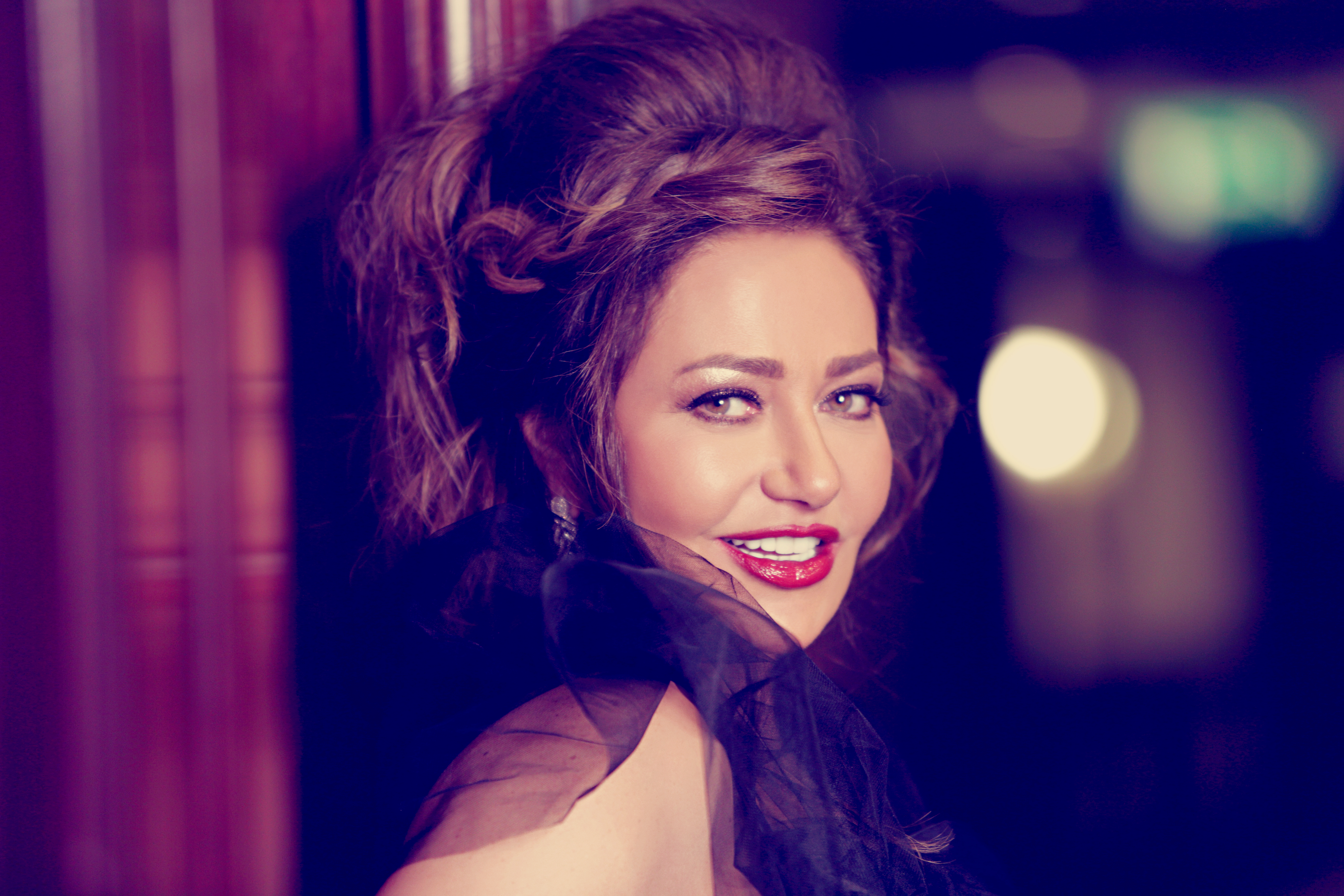 Laila Eloui By Kareem Nour 11 cutt